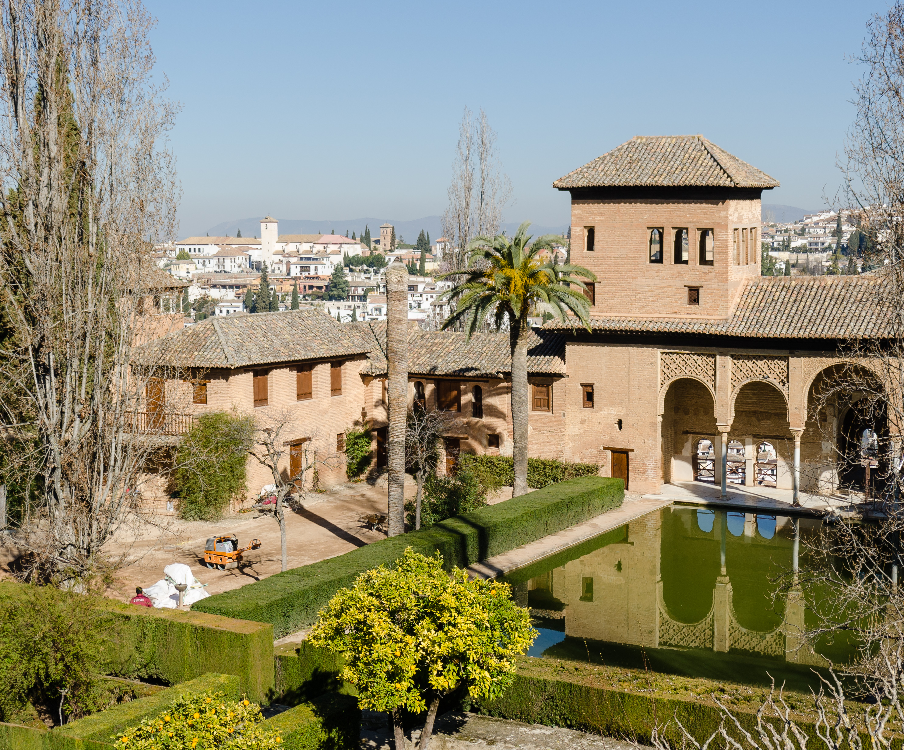 El Partal with gardens in Alhambra